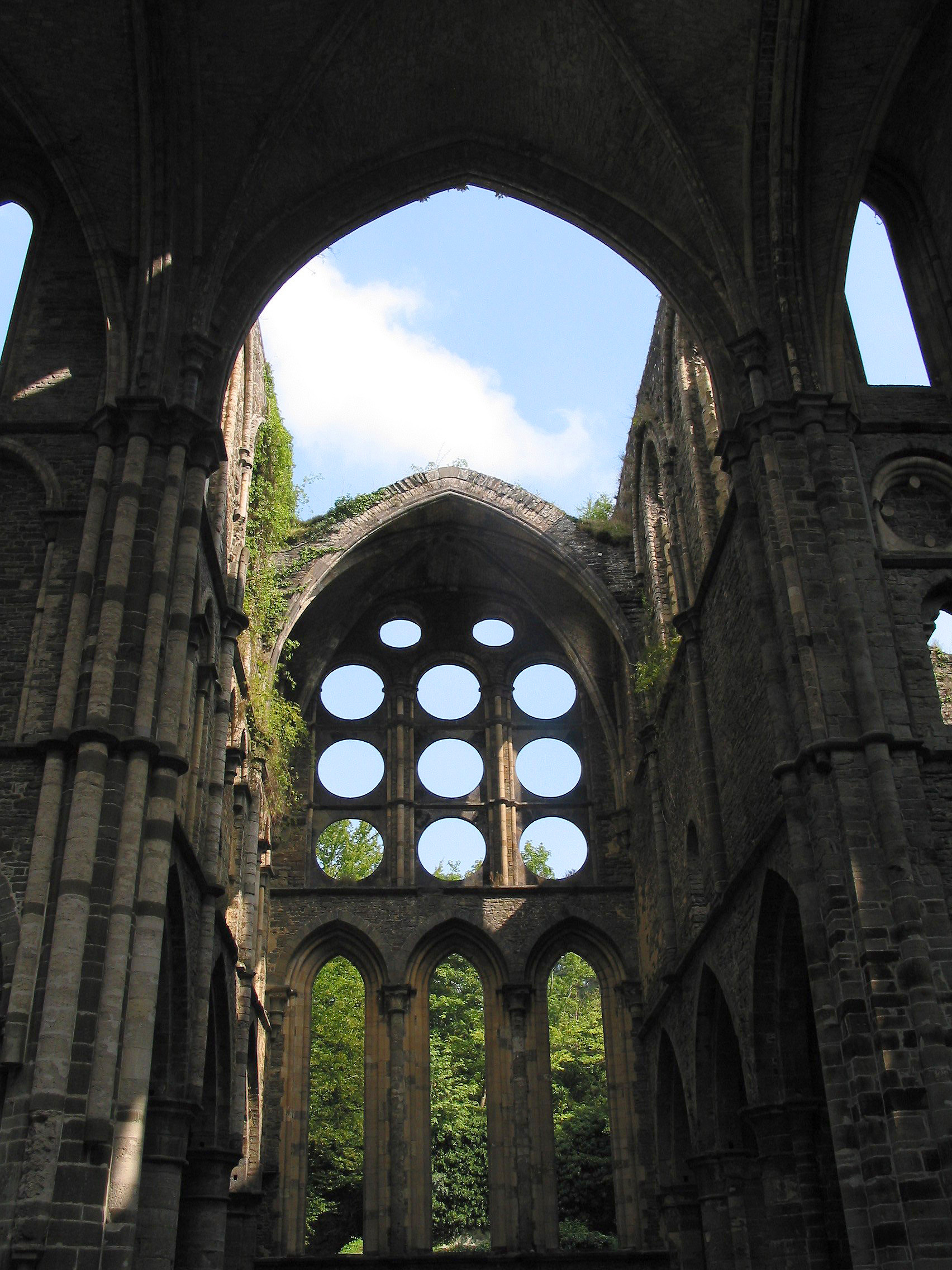 Villers-la-Ville (Belgium), ruins of the northern transept of the abbey church (XIIIth century).